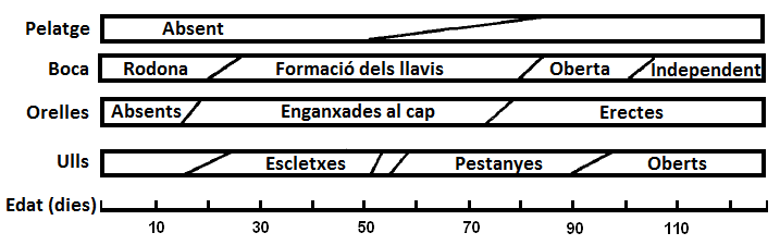 Created by User:Petaholes from data in Guiler, E.R., Observations on the Tasmanian Devil, Sarcophilus harrisii (Marsupialia : Dasyuridae) II. Reproduction, breeding and growth of pouch young, Australian Journal of Zoology, 1970, 18(1)63-70 he:קובץ:Tasmanina_Devil_development_heb.jpg